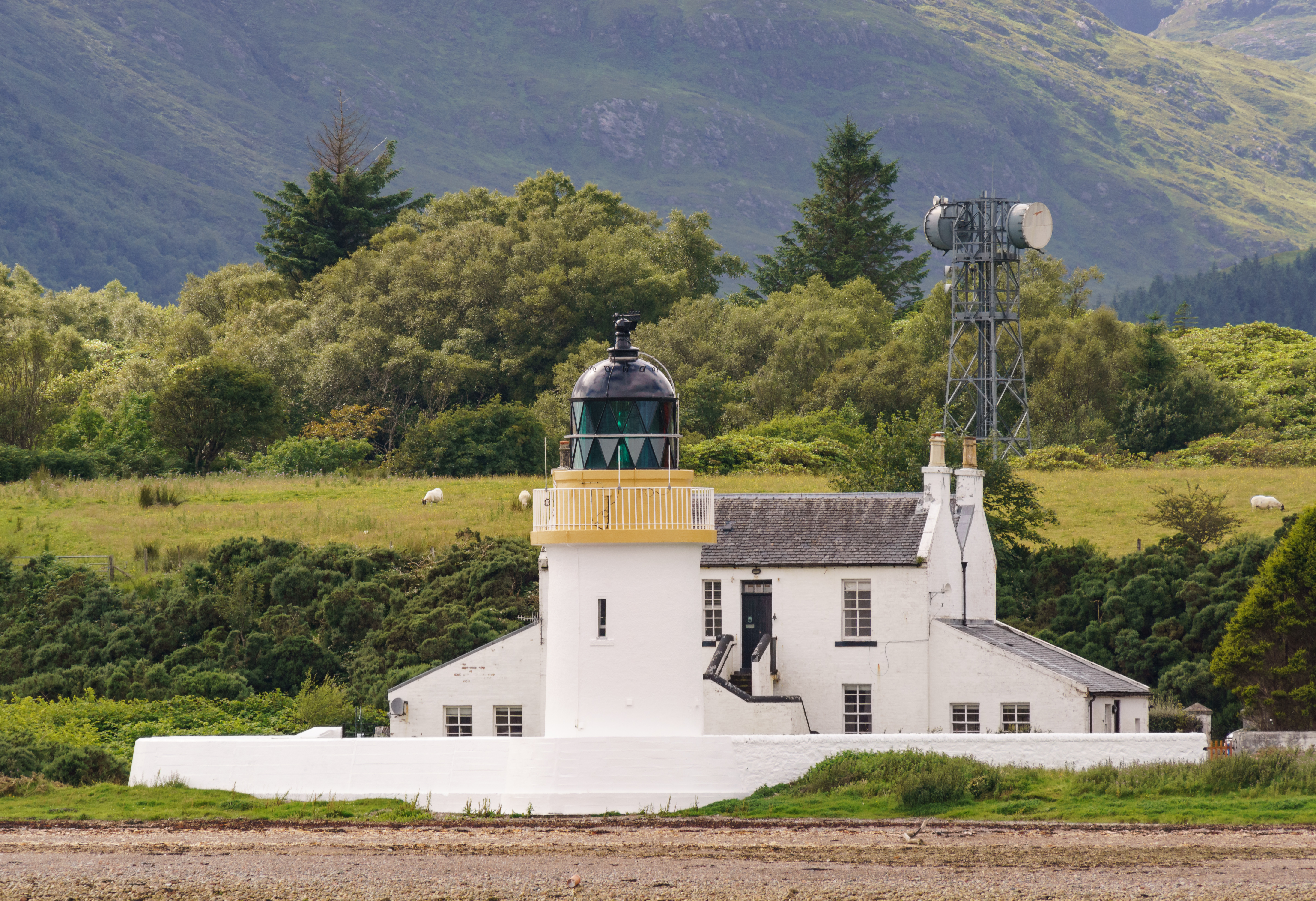 Corran Point Lighthouse, near Corran.